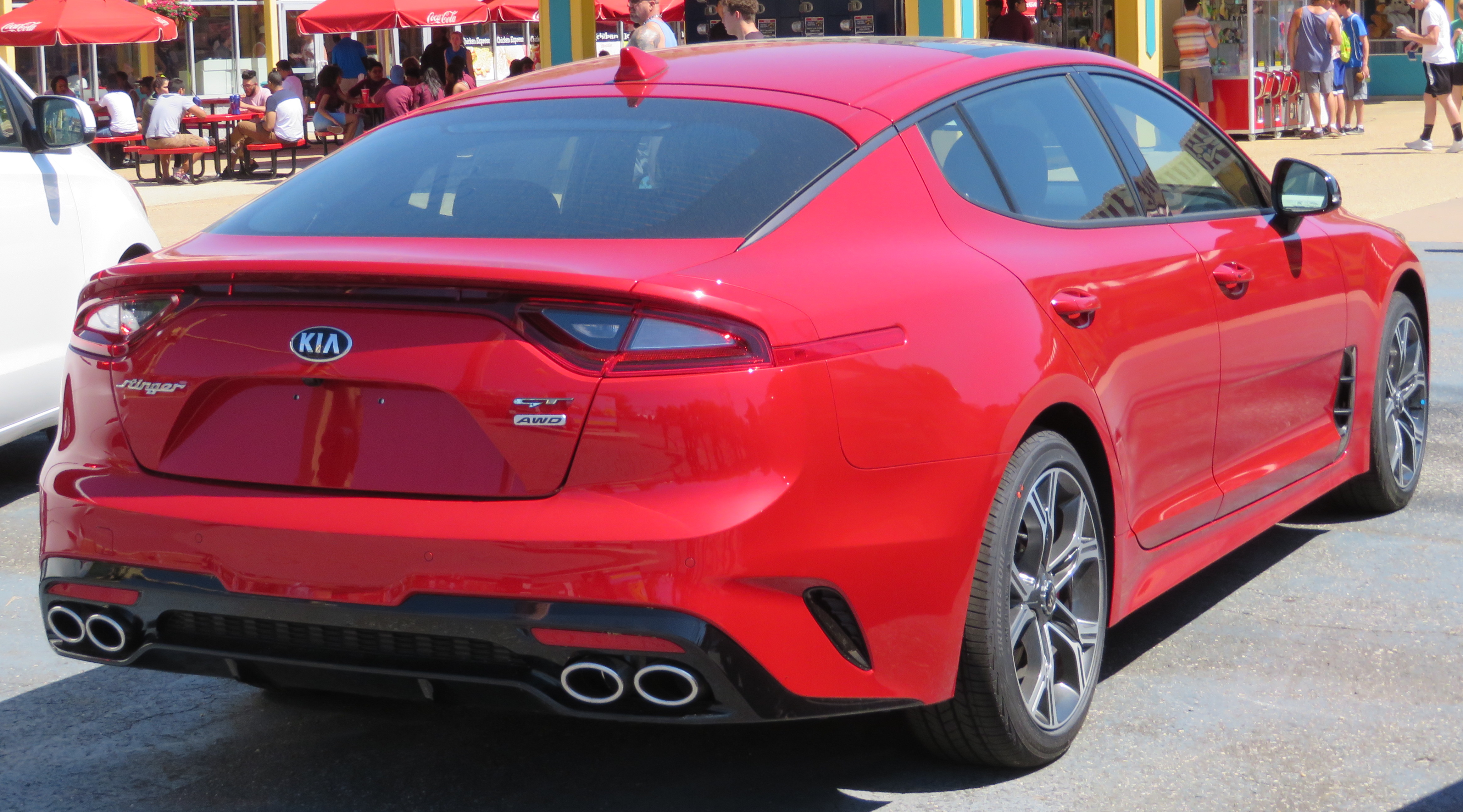 Has a Twin Turbo V6 Engine, Photographed in Six Flags Amusement Park(Sponsored), Jackson, New Jersey